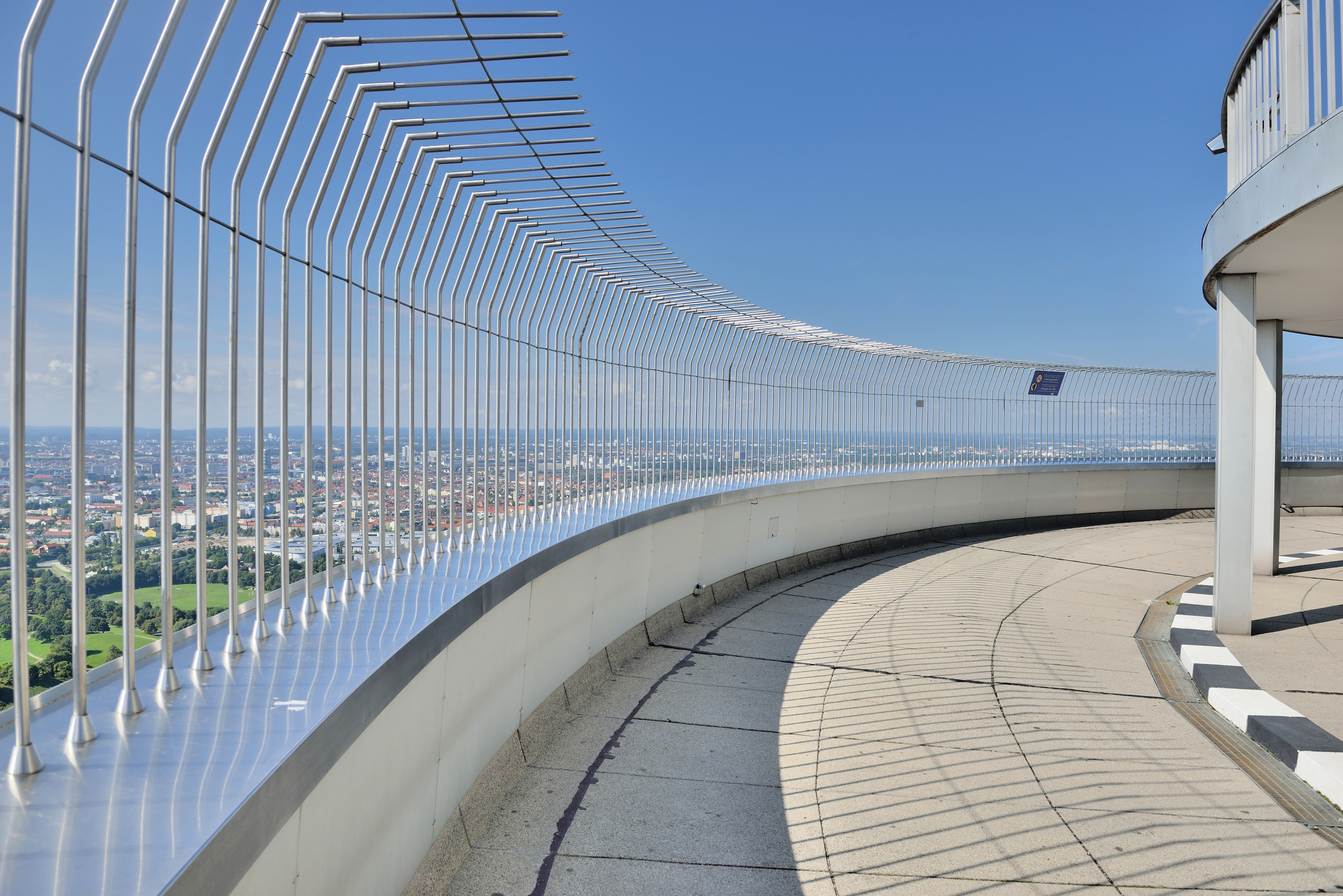 Munich: Olympic Tower